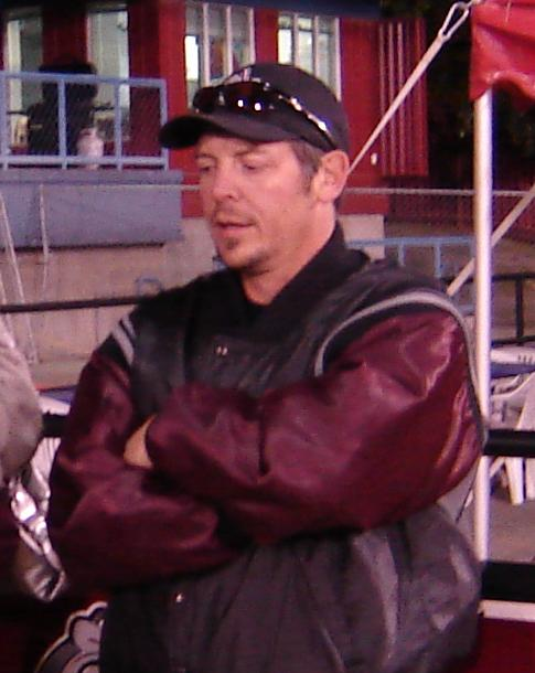 Hockey Hall of Famer Theoren Fleury at a Calgary Vipers baseball game.